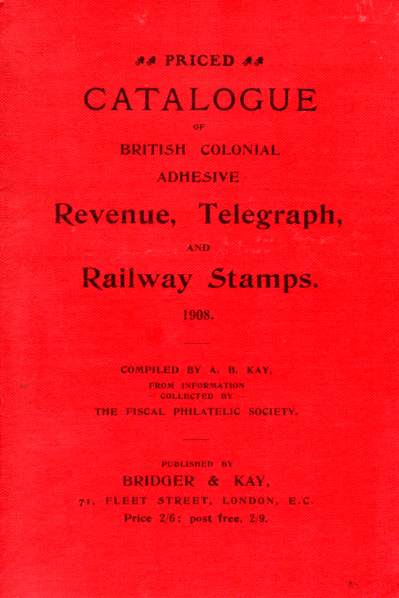 The cover of the "Priced Catalogue of British Colonial Adhesive Revenue, Telegraph and Railway Stamps, 1908" by A.B. Kay.